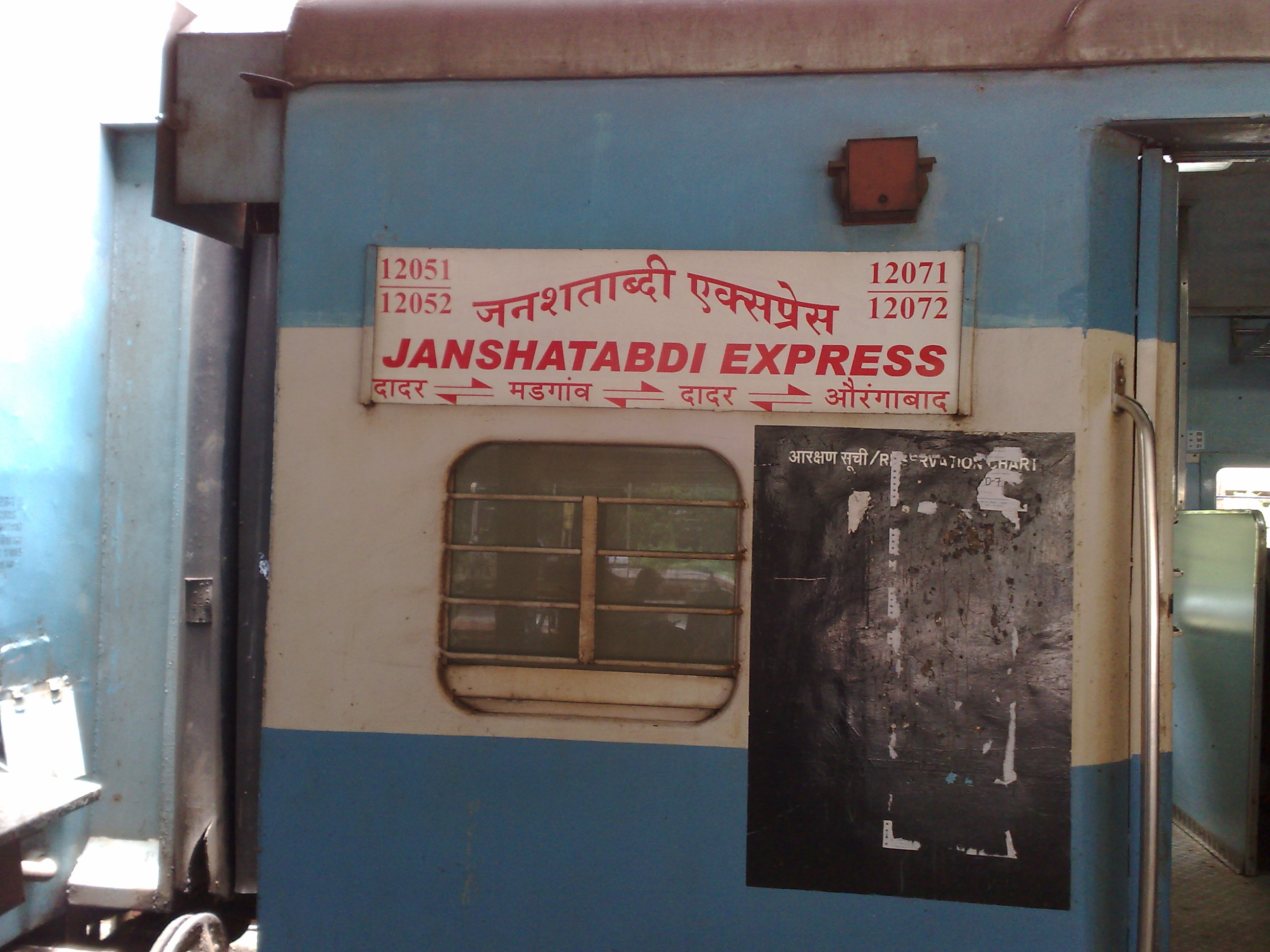 12072 Janshatabdi Express trainboard